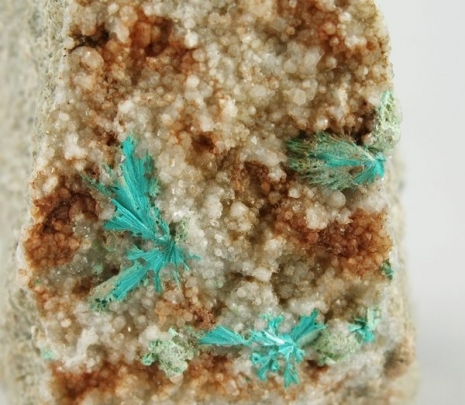 Mixite Locality: Wittichen, Schenkenzell, Black Forest, Baden-Württemberg, Germany (Locality at ) Size: 4.4 x 3.0 x 2.9 cm Original description: Mixite is a rare bismuth, copper arsenate and this fine German specimen features striking radial sprays of gorgeous, chatoyant, turquoise-blue mixite lathes on starkly contrasting matrix. Classic, showy and rich material from this locale.